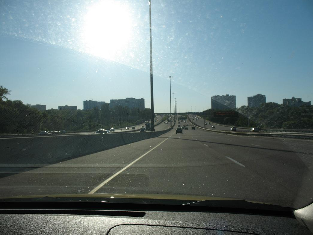 King´s Highway 401 in Toronto, eastbound.